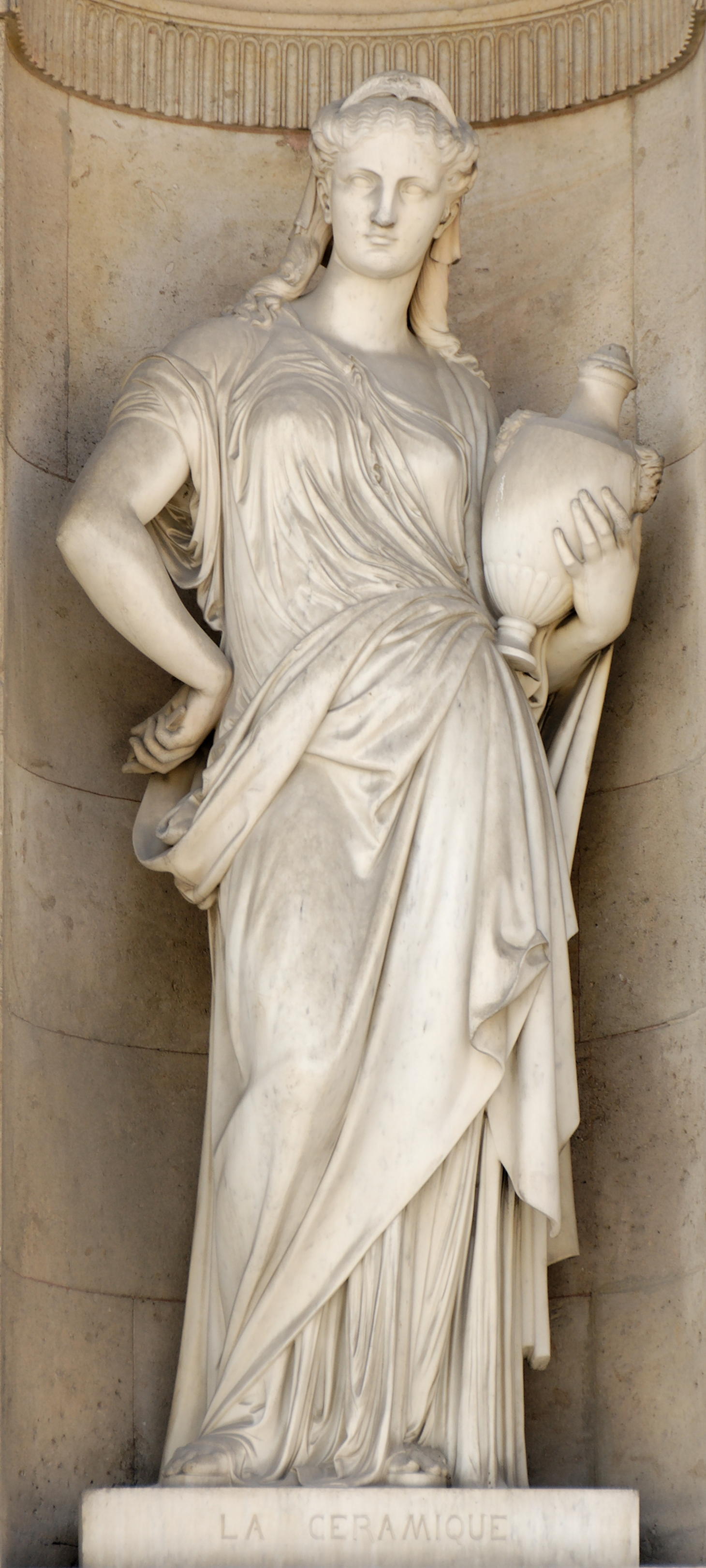 Ceramics (1874) by Eugène Guillaume (1822-1905). West façade of the Cour Carrée in the Louvre palace, Paris.